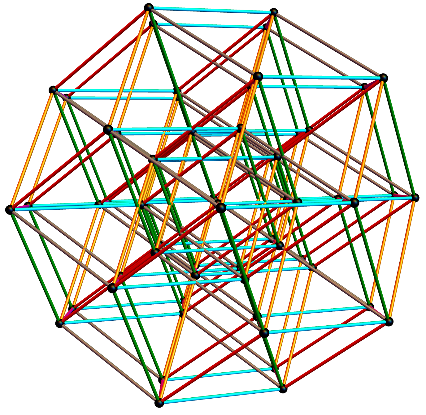 A w:6-cube (Hexeract) using 6D orthographic_projection to a 3D Perspective_(visual) object (the Rhombic_triacontahedron) using the Golden ratio φ in the basis_vectors. This is used to understand the aperiodic Icosahedron structure of Quasicrystals. This particular projection is used to understand the structure of Quasicrystals. The specific basis vectors are: x = {1, φ, 0, -1, φ, 0} y = {φ, 0, 1, φ, 0, -1} z = {0, 1, φ, 0, -1, φ} There are 64 vertices and 192 unit length edges forming pentagonal symmetry along specific axis (as well as hexagonal symmetries on other axis). The edge colors are defined by which of the 6 dimensions it aligns with.